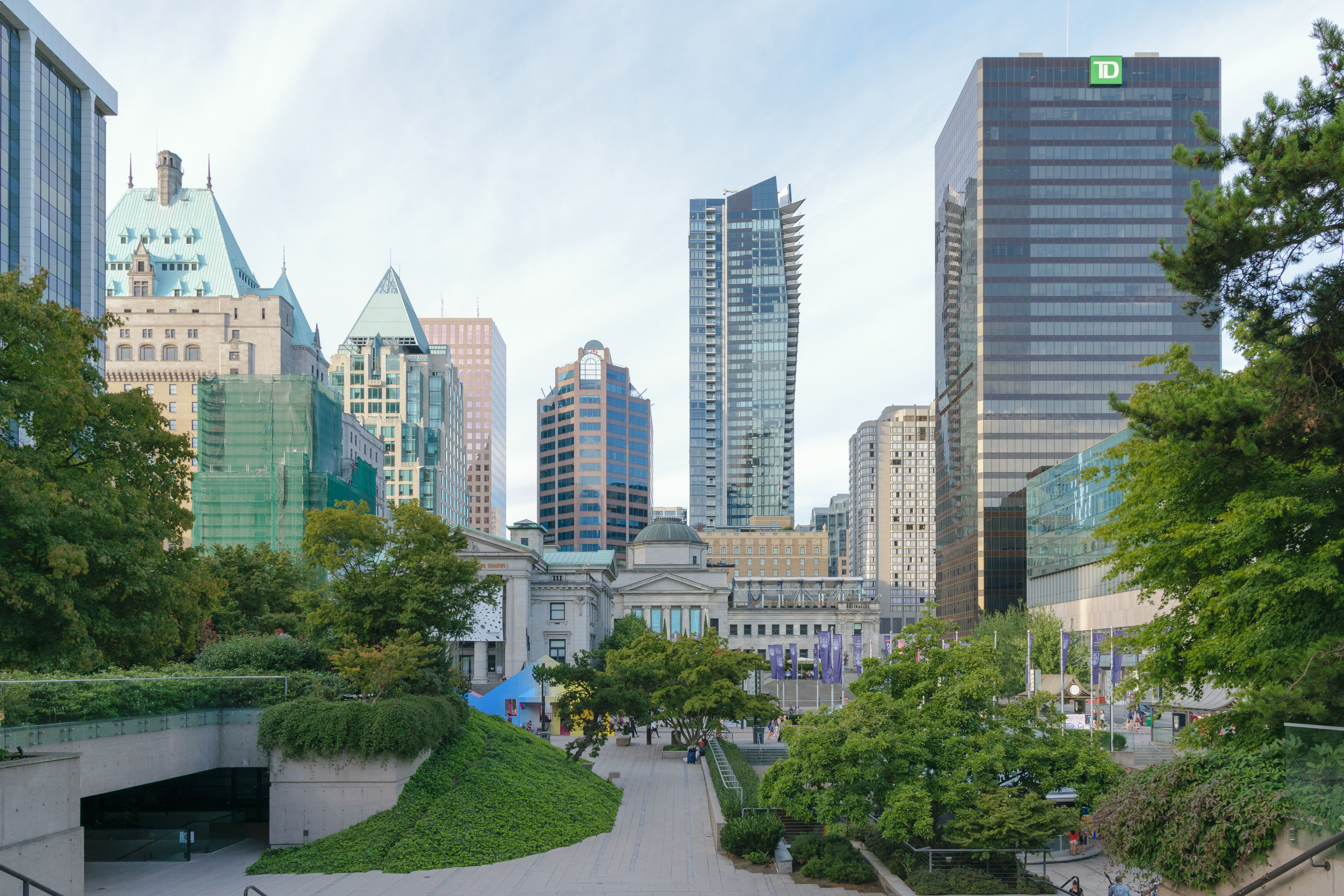 View of Downtown Vancouver (British Columbia, Canada) from Robson Square.